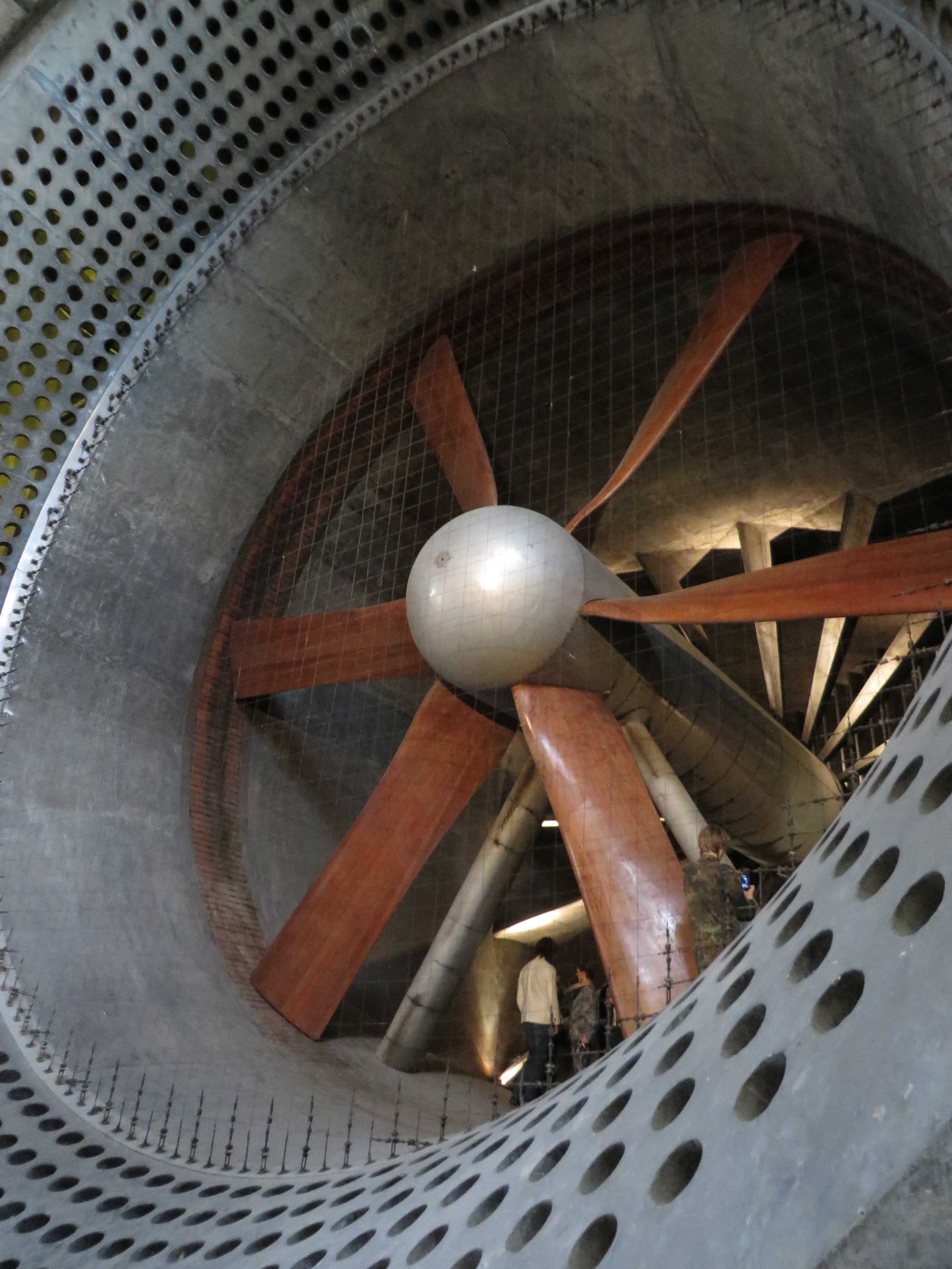 The main wind turbine fan in building Q121 which is part of the Wind Tunnels in Farnborough, Hampshire, UK